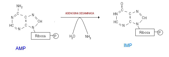 Adenosine deaminase